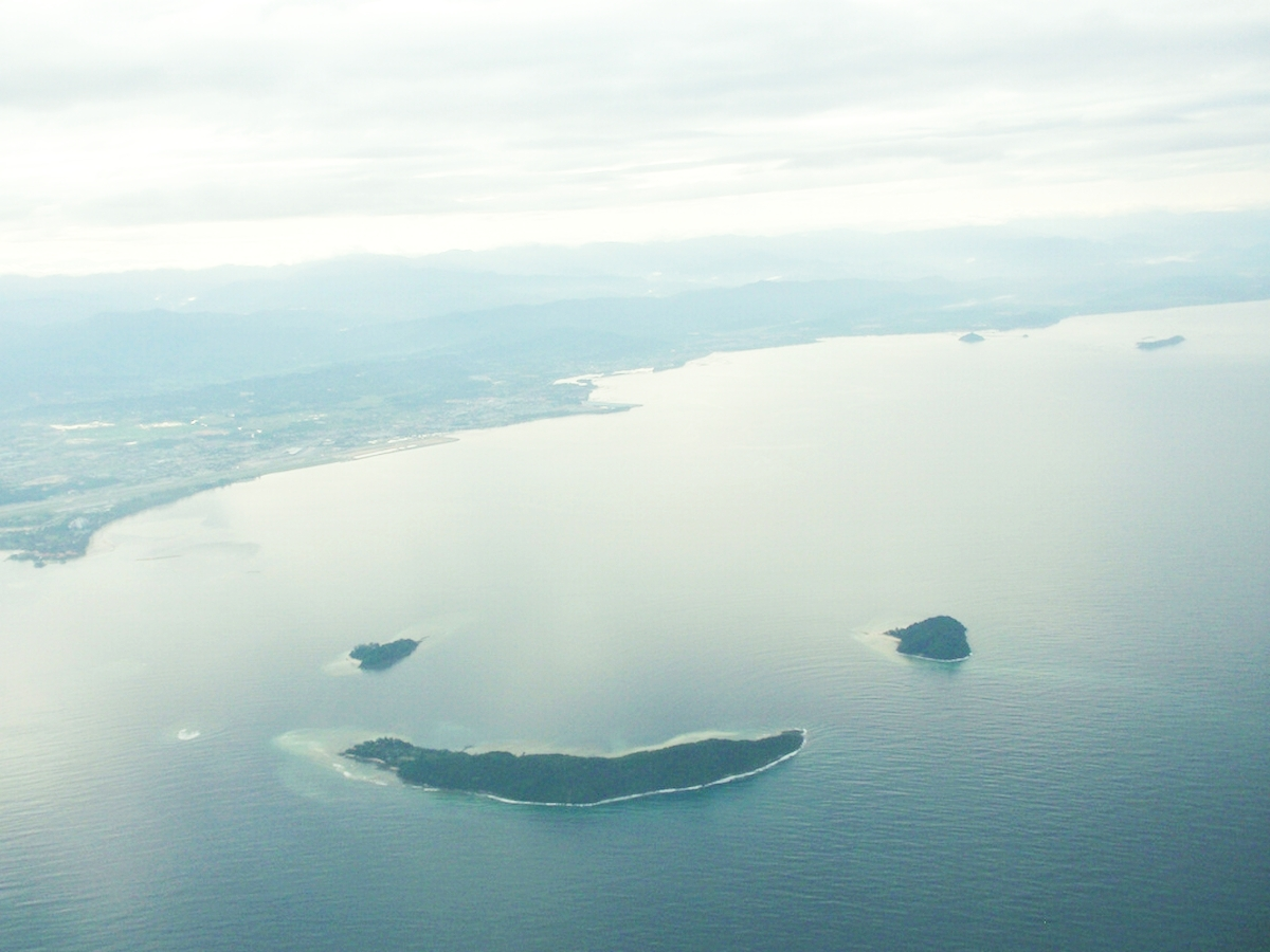 As usual after the takeoff video I will continue taking aerial pictures. Our pilot this time flew the plane a bit further from mainland. : )